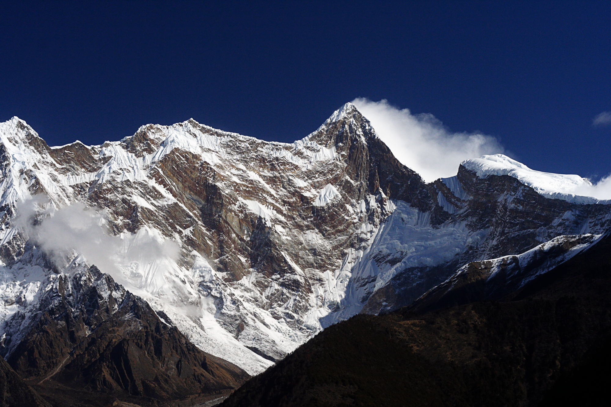 Namcha Barwa from the west, seen from the Zhibai observation platform, Tibet, China